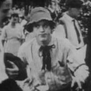 Jack Pickford in a scene from the movie "The Painted Lady" (1912, directed by David Wark Griffith).